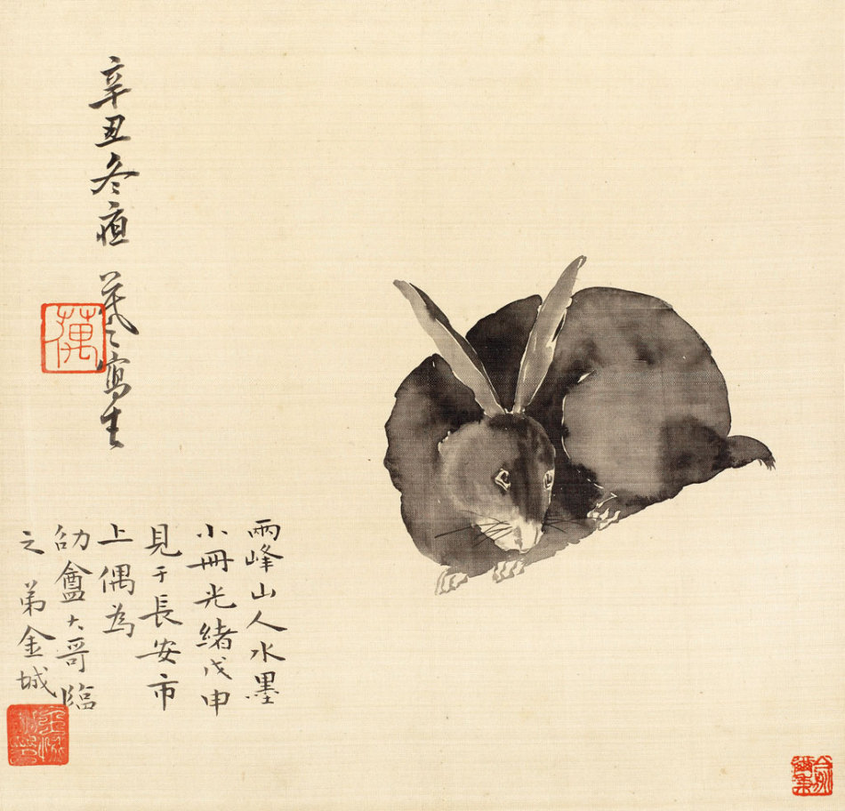 Painting by Jin Cheng (1878-1926)